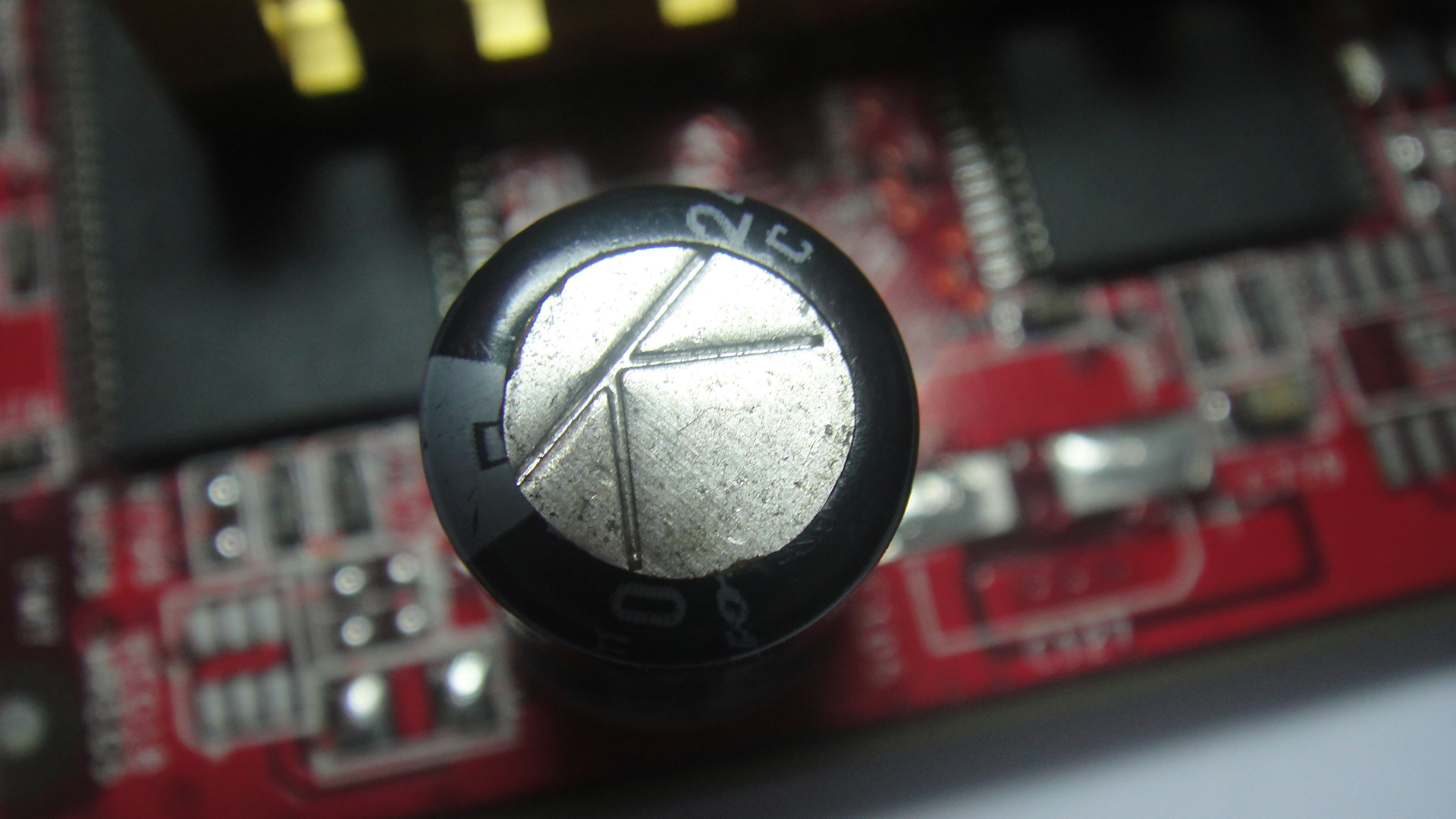 condansator-top view